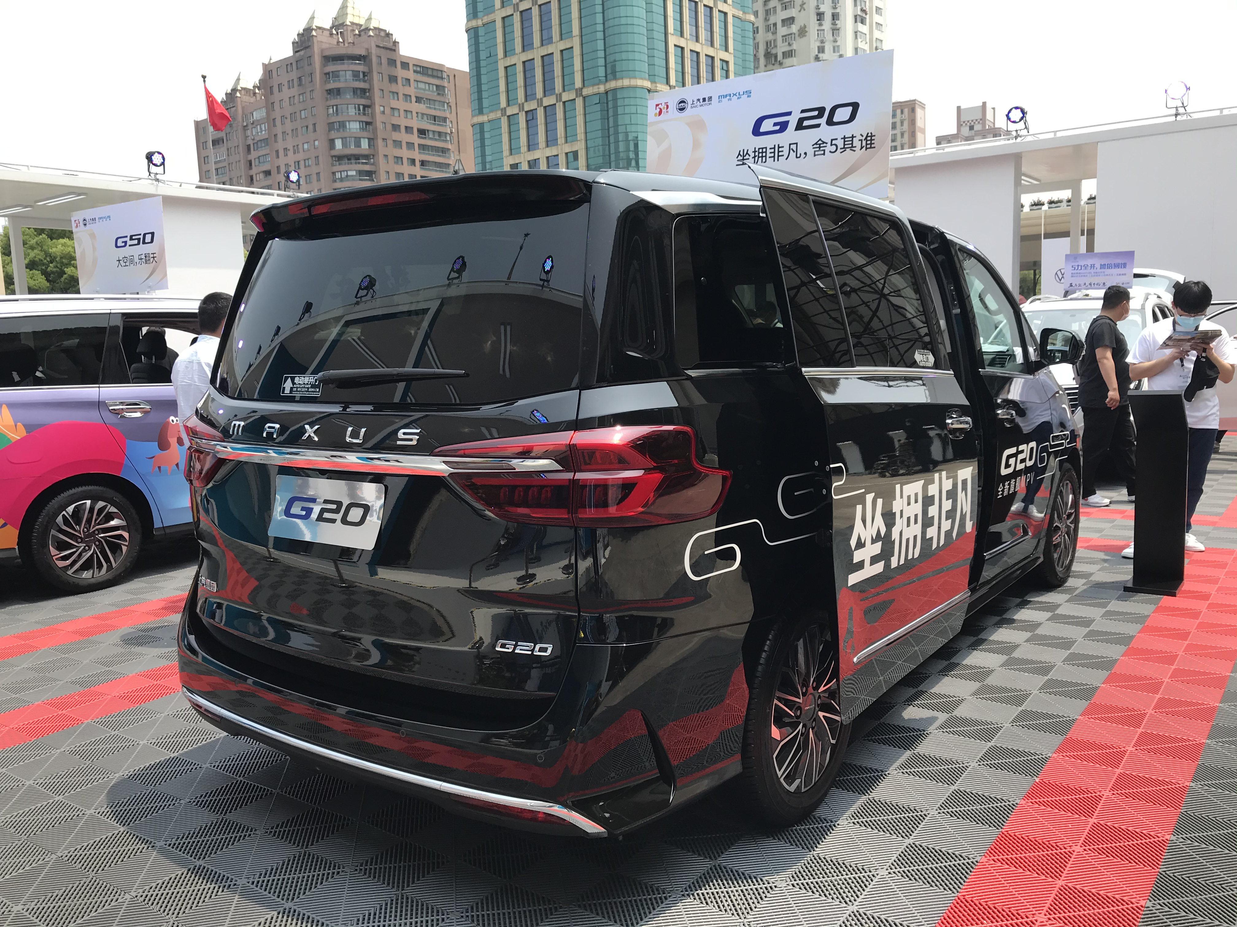 Maxus G20